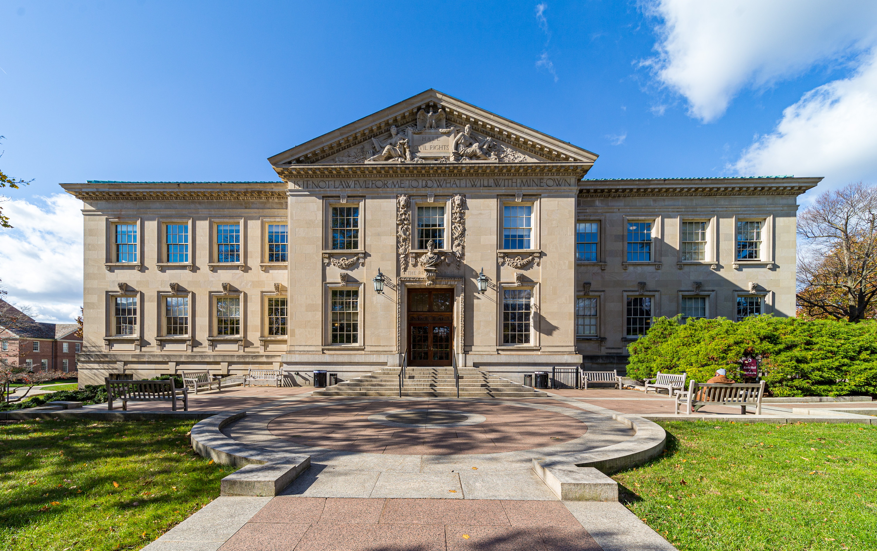 Kirby Hall of Civil Rights , Warren and Wetmore, 1929-1930. Lafayette College, Easton Pennsylvania